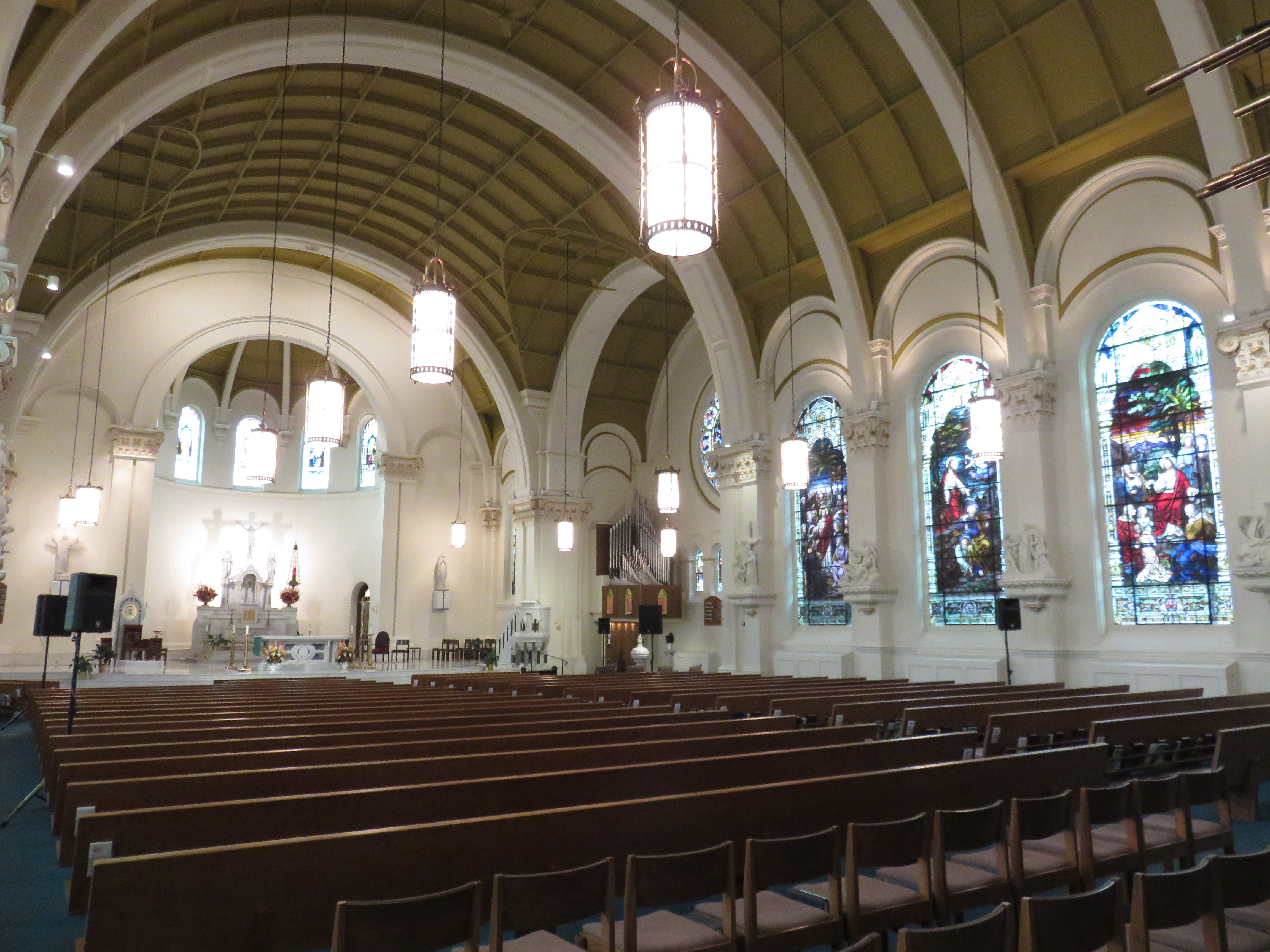 Interior of the Cathedral of Our Lady of Lourdes in Spokane, Washington in 2018